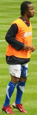 Jaime Peters. Image cropped from original at flickr.